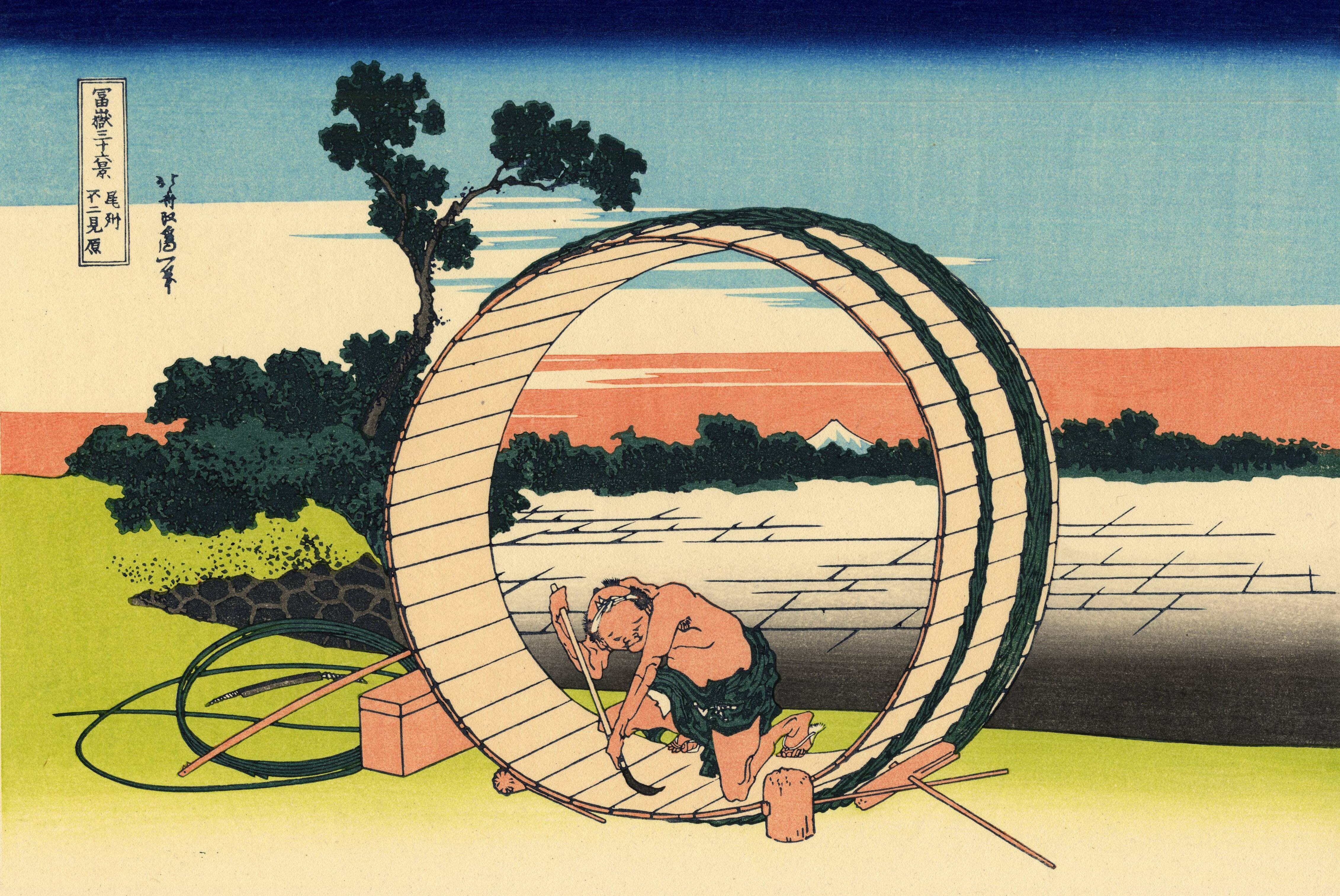 Part of the series Thirty-six Views of Mount Fuji, no. 40, 4th additional woodcut.